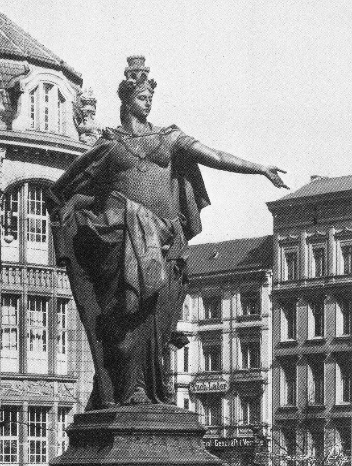 the Berolina statue by Emil Hundrieser at Alexanderplatz in Berlin. The model was Anna Sasse (Anna Fellgiebel)